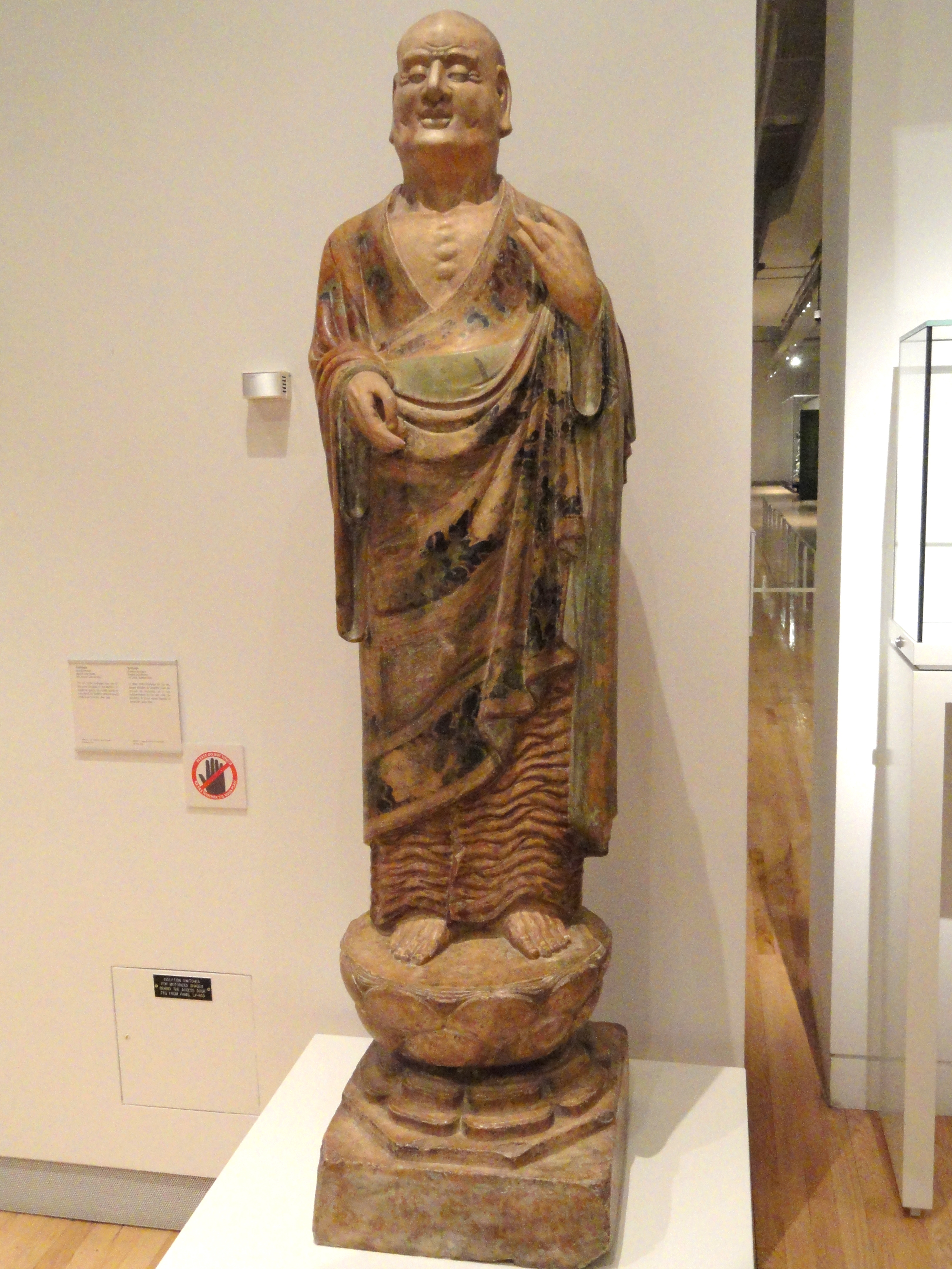 Exhibit in the Royal Ontario Museum, Toronto, Ontario, Canada. This exhibit is old enough so that it is in the public domain, and photography was permitted in the museum. I took this photograph and release it into the public domain.